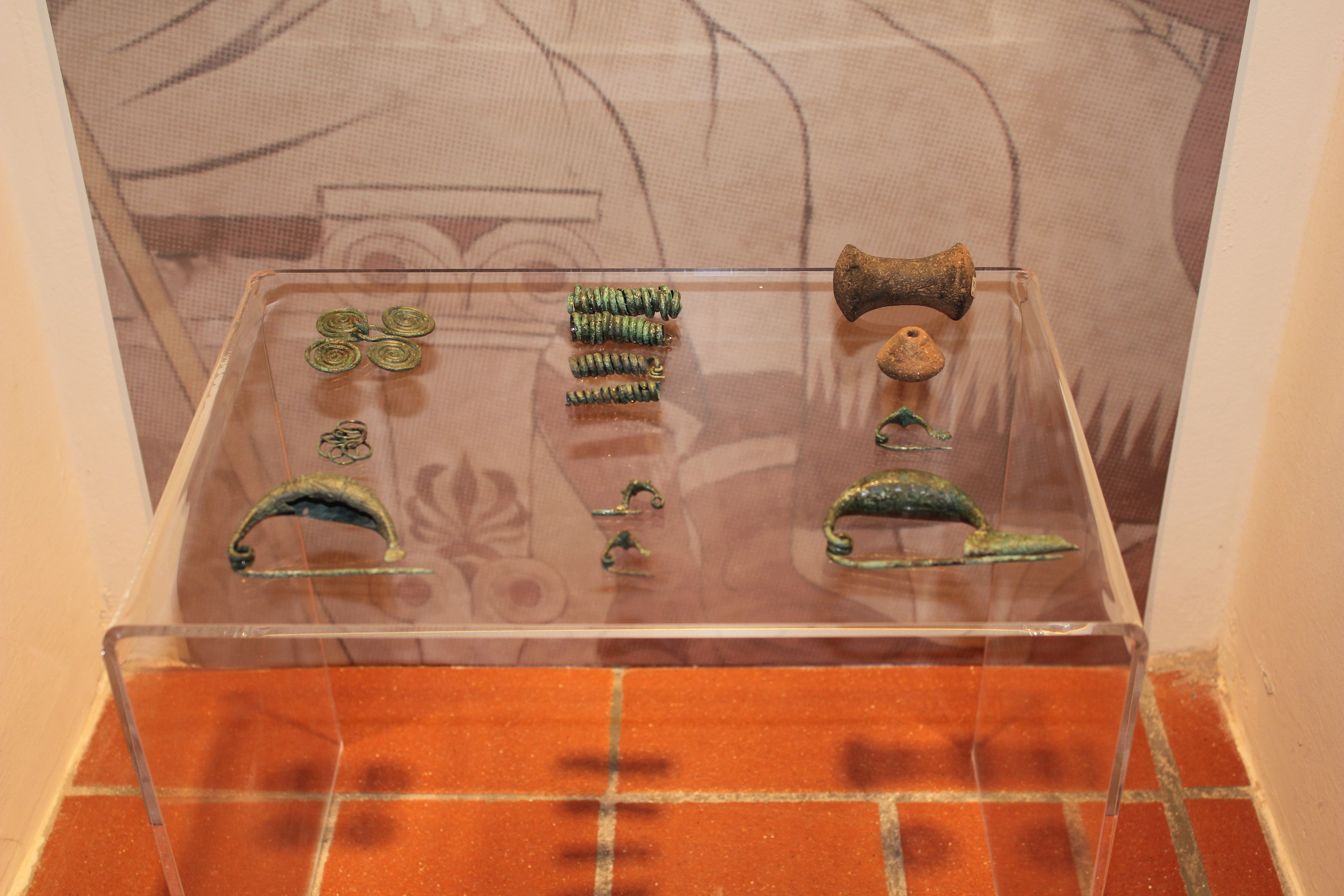 MAGMA Follonica